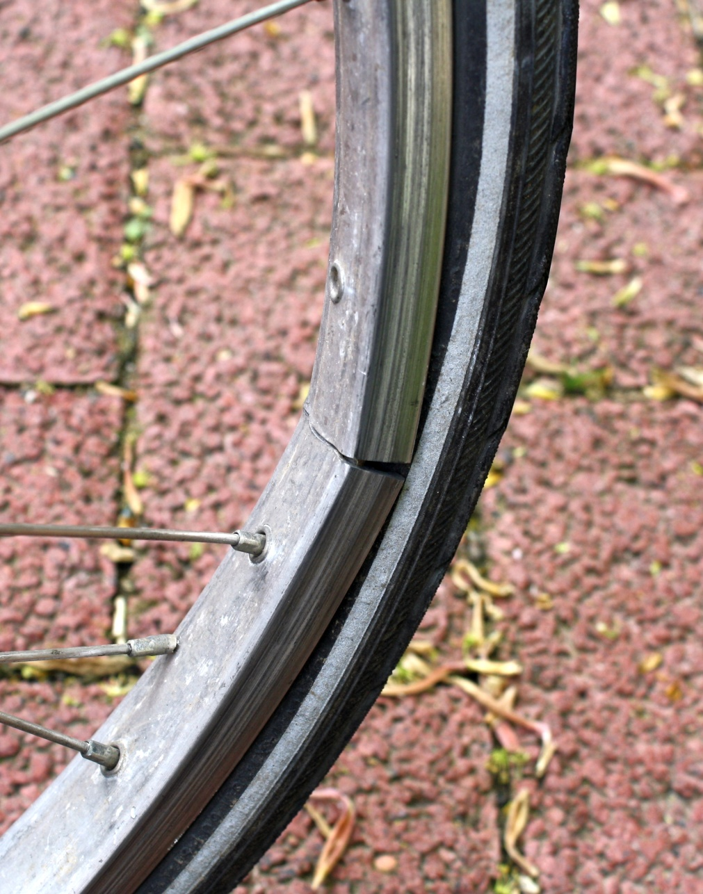 Broken rim of a bicycle front wheel after a collision with a suddenly opened car door